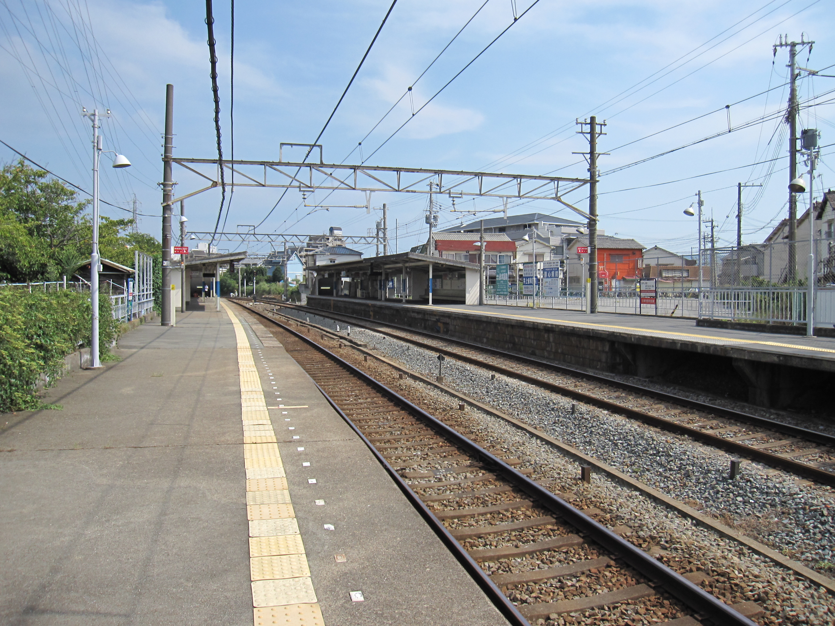 Hayashisaki-Matsuekaigan Station platforms